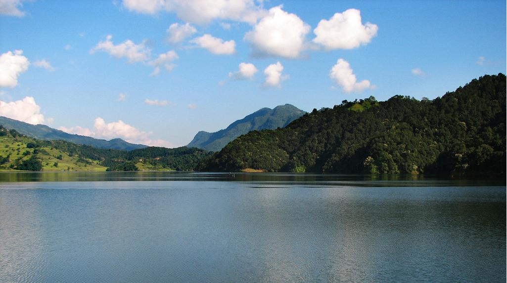 Begnas Lake near Pokhara